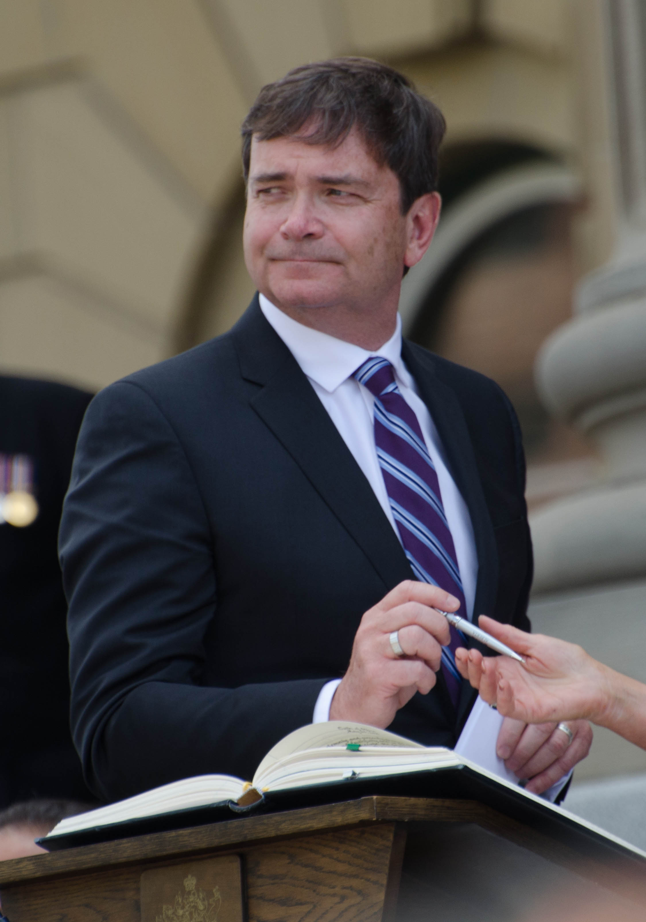 Oneil Carlier at the 2015 Alberta Premier/Cabinet swearing-in ceremony, by Connor Mah.